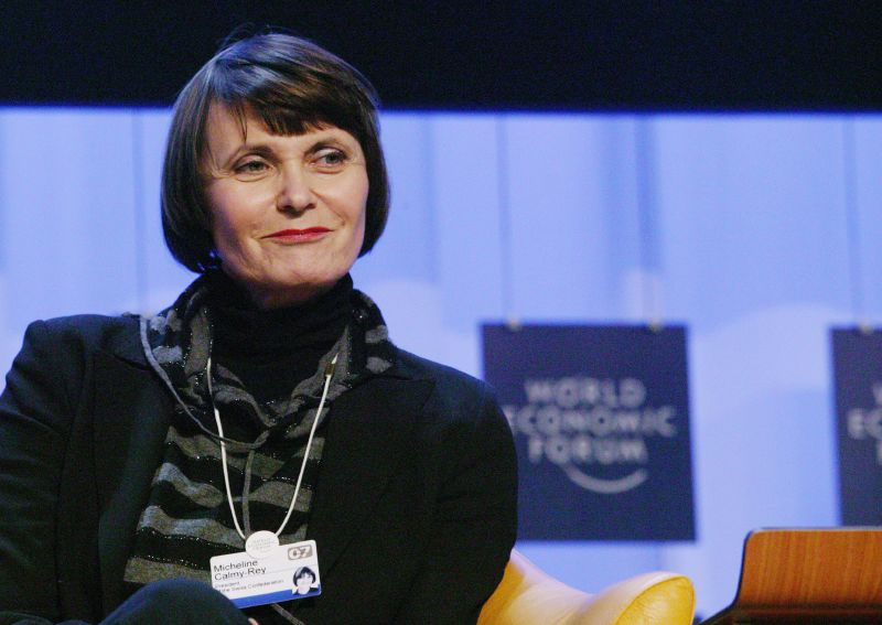 DAVOS/SWITZERLAND, 24JAN07 - Micheline Calmy-Rey, President of the Swiss Confederation and Federal Councillor of Foreign Affairs, Switzerland, welcomes the participants at the Annual Meeting 2007 of the World Economic Forum in Davos, Switzerland, January 24, 2007. Copyright World Economic Forum swiss-image.ch /Photo by